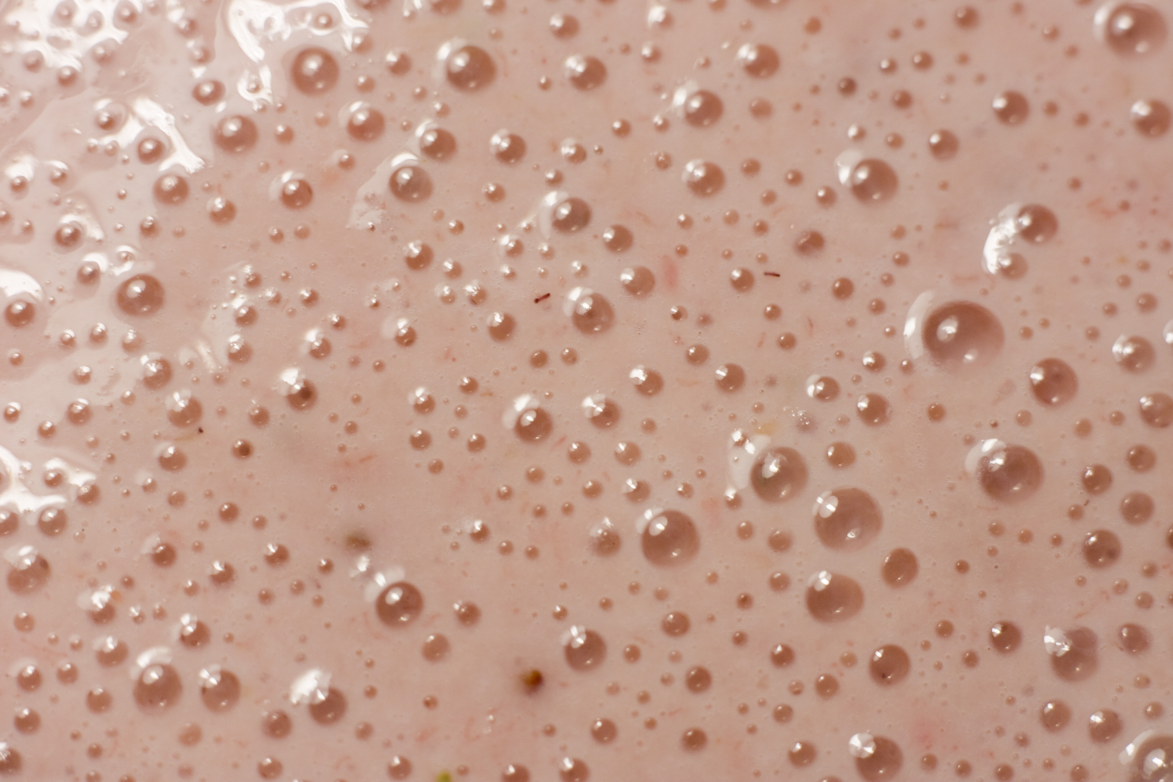 Strawberry milkshake close-up bubble texture Original caption: “Two handfuls of strawberries, a banana, a cup of kefir, two ice cubes. Blend. Drink. Know that life has meaning.”